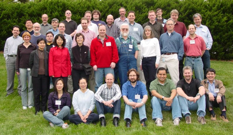 OSDL Desktop Technical / Printing Summit